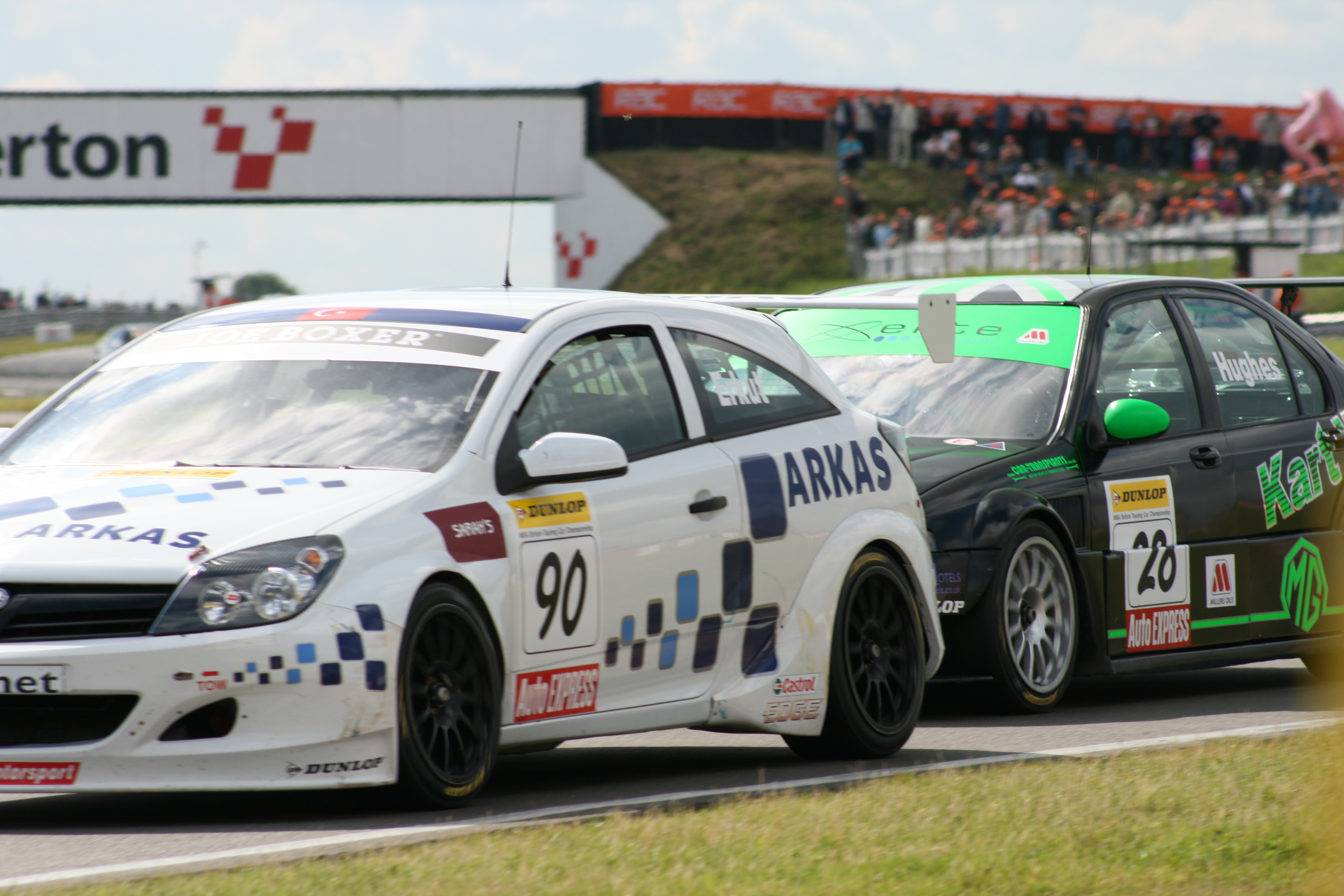 Erkut Kizilirmak (Vauxhall) leads Jason Hughes (MG) at the Snetterton round of the 2007 BTCC season.